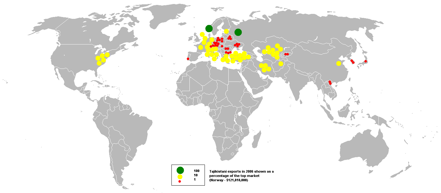 This bubble map shows the global distribution of Tajikistani exports in 2006 as a percentage of the top market (Norway - $121,818,000). This map is consistent with incomplete set of data too as long as the top producer is known. It resolves the accessibility issues faced by colour-coded maps that may not be properly rendered in old computer screens. Data was extracted on 19th September 2007 from Based on :Image:BlankMap-World.png